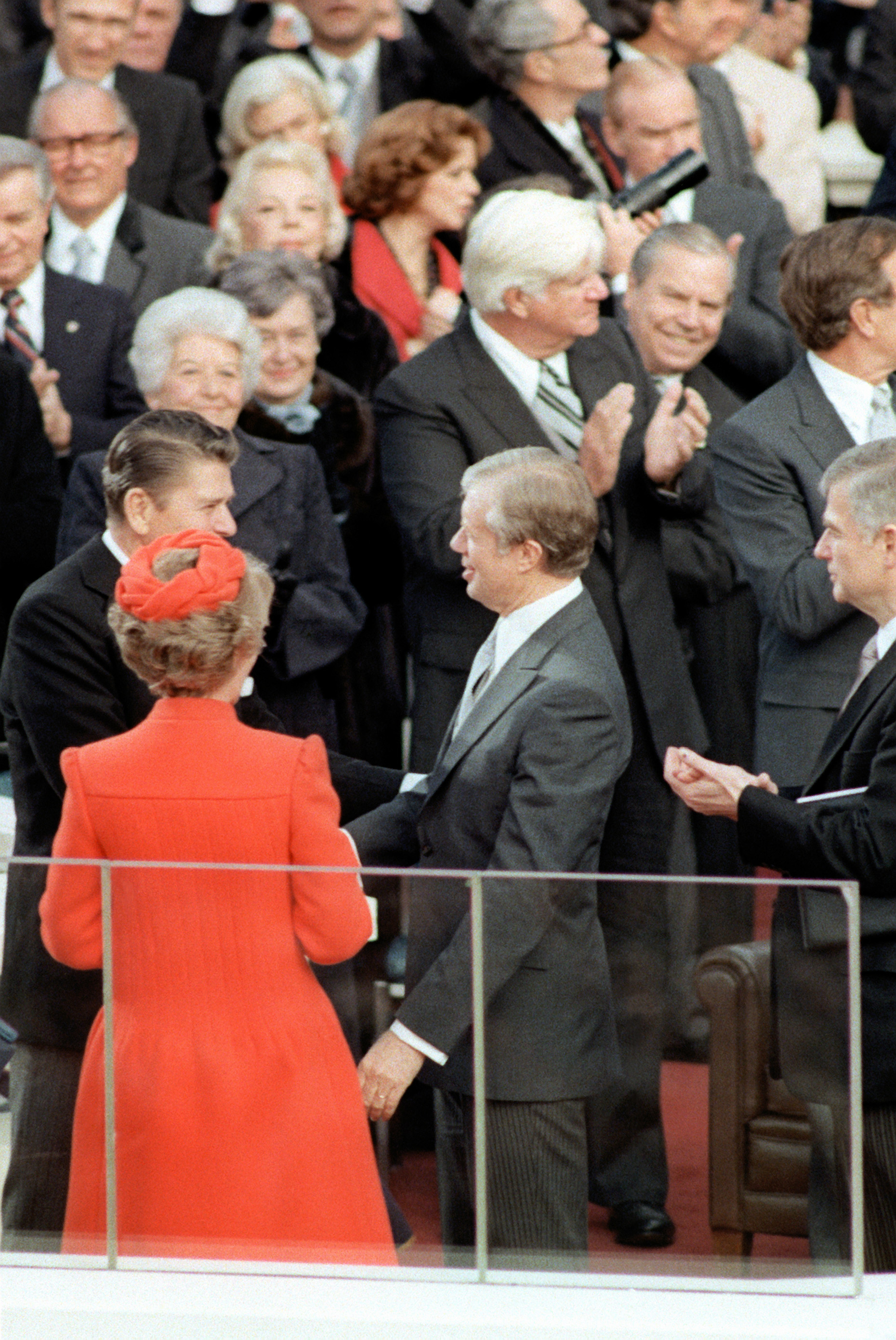 Out-going President Jimmy Carter congratulates Ronald Reagan, the new president, at the Capitol during Inauguration Day. Nancy Reagan observes the scene.